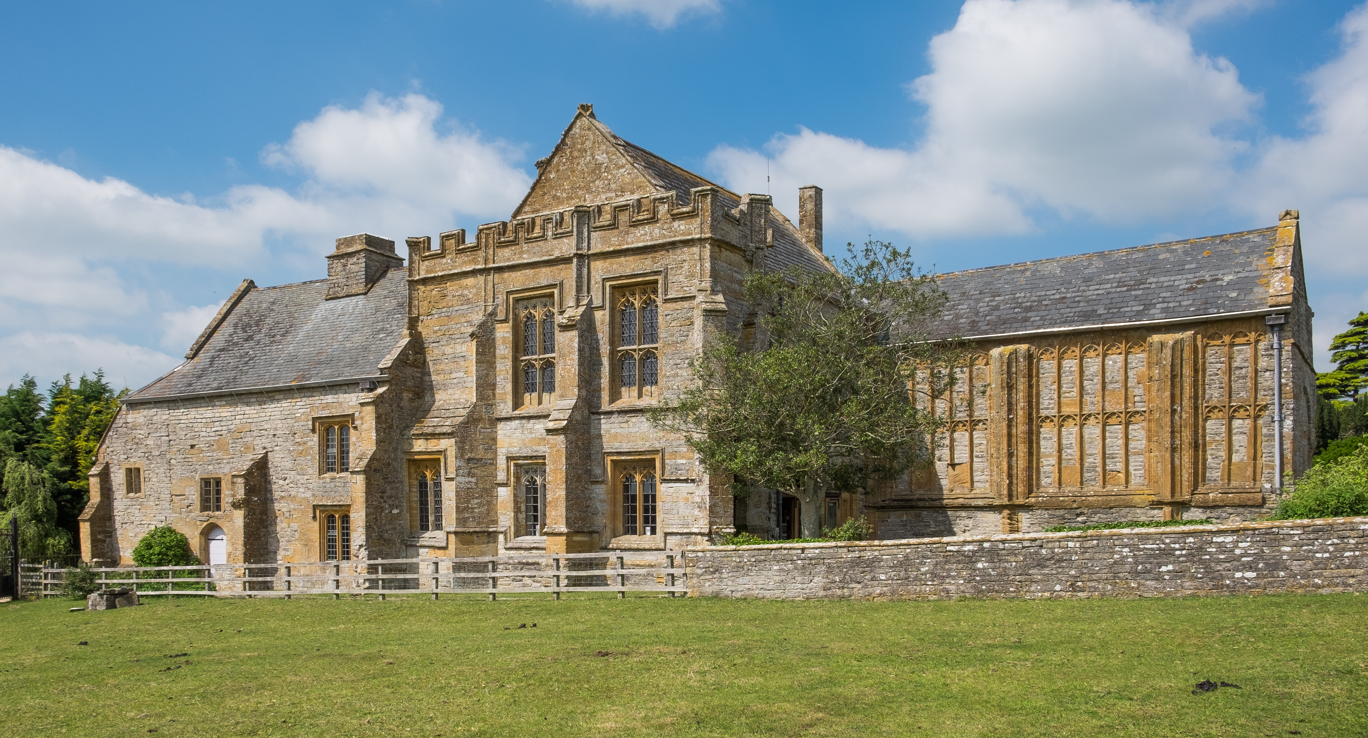 The Abbot's House at Muchelney Abbey, Somerset. The Abbot's house, built in the 14th and 15th century, is a grade 1 listed building in England.